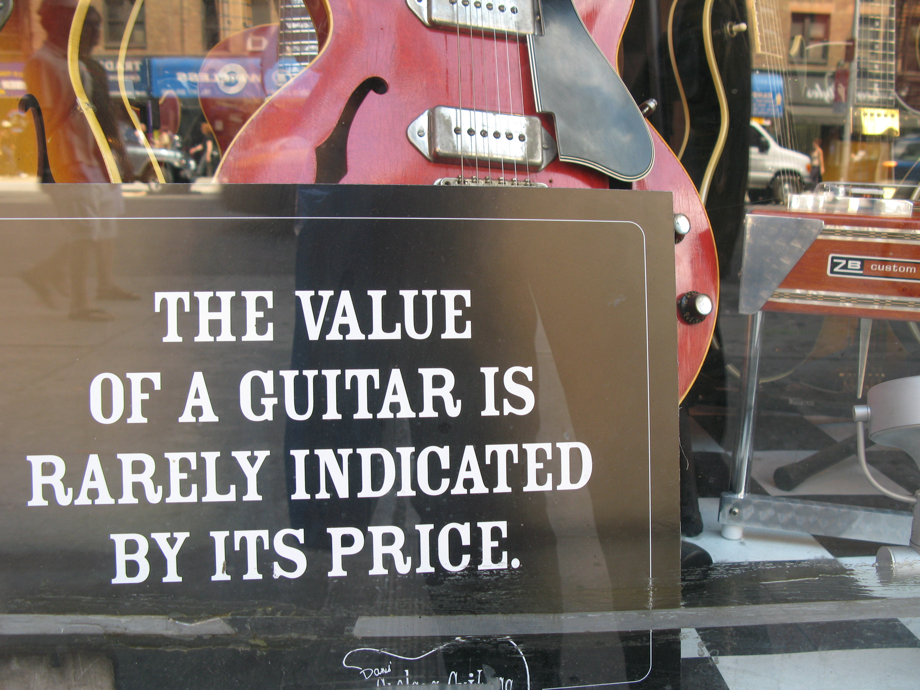 "The Value of a Guitar is Rarely Indicated by its Price."— Chelsea Guitars, nYc